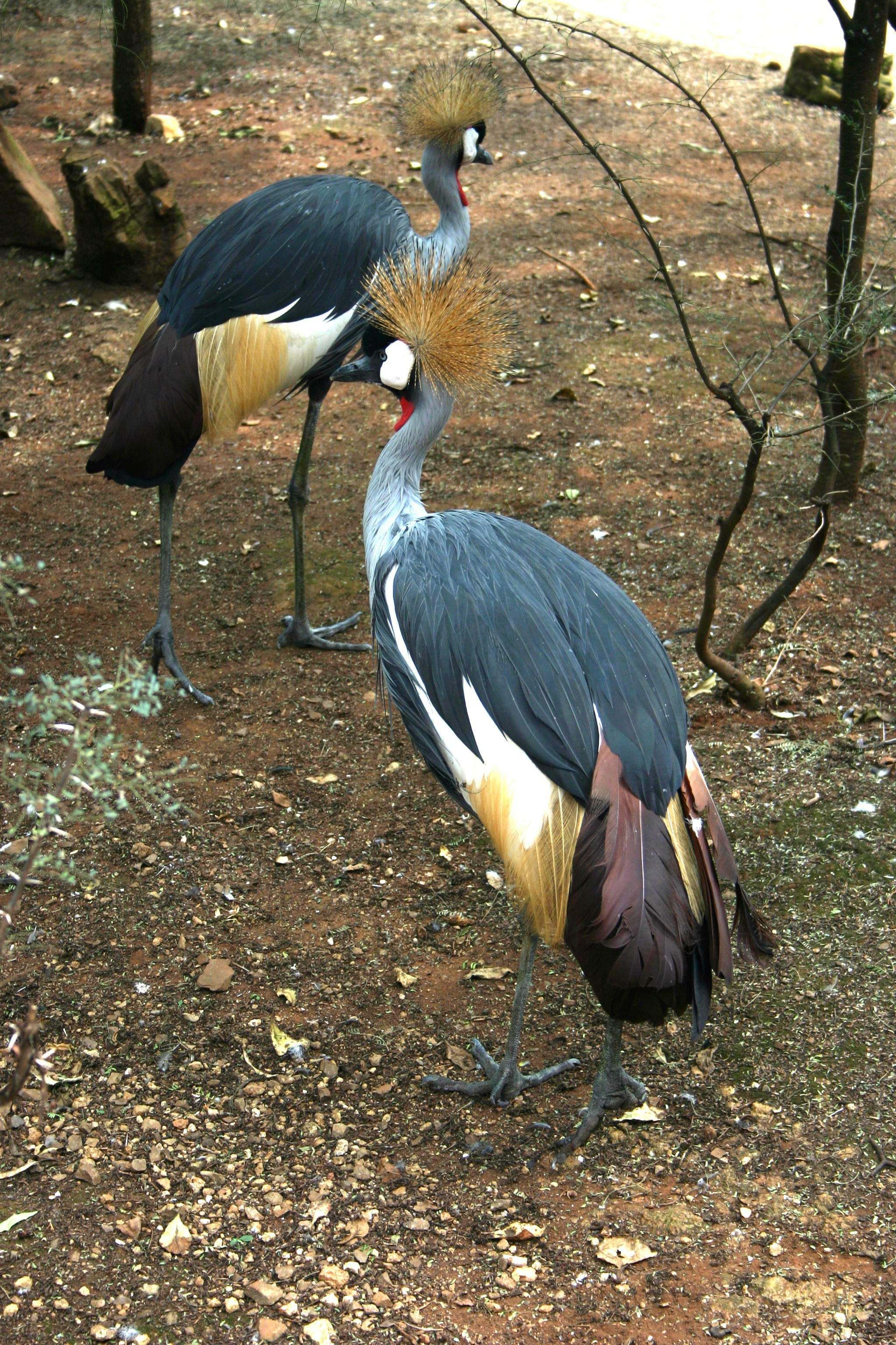 Crowned Cranes - Balearica regulorum, Krugersdorp Game Reserve, Gauteng